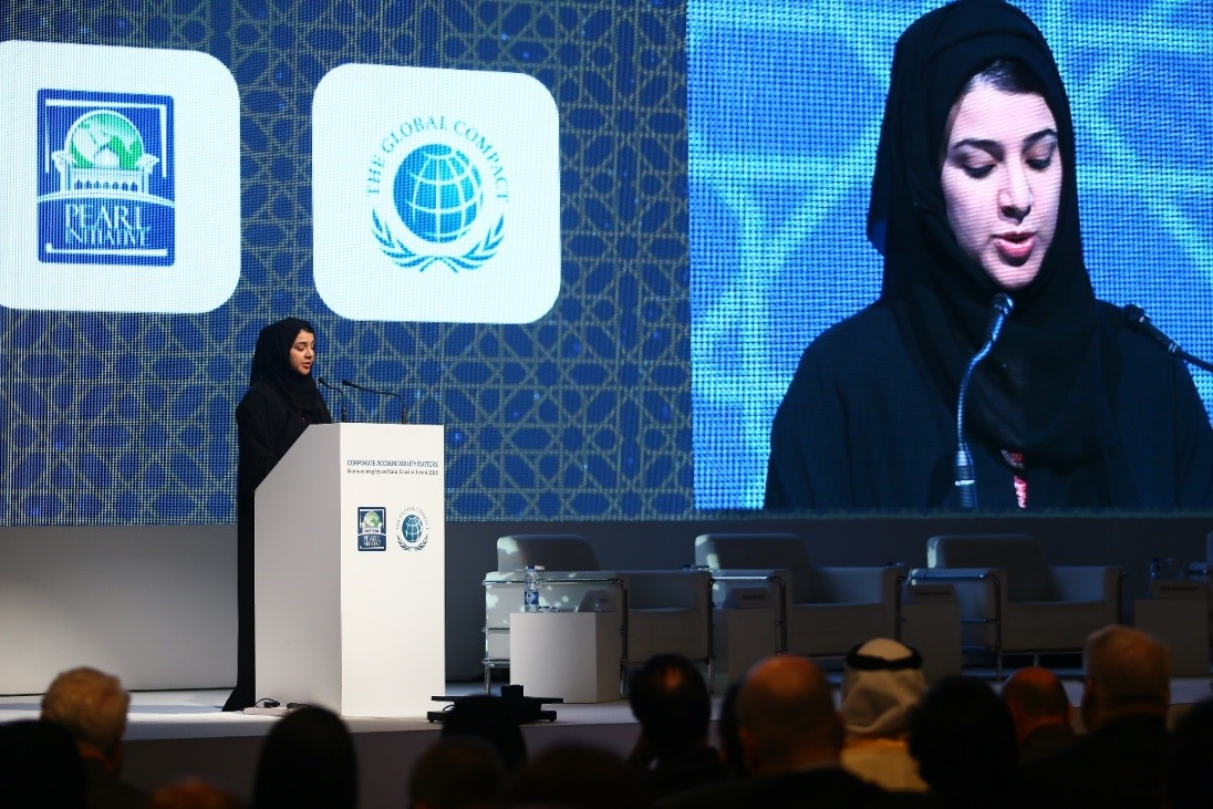 Reem Al Hashimy, UAE Minister of State and Board Representative of the Higher Committee and Managing Director of the Expo 2020 Executive Body keynote speech at Pearl Initiative and United Nations Global Compact Inaugural Forum “Corporate Accountability Matters”, United Arab Emirates, Dubai, 16 April 2015